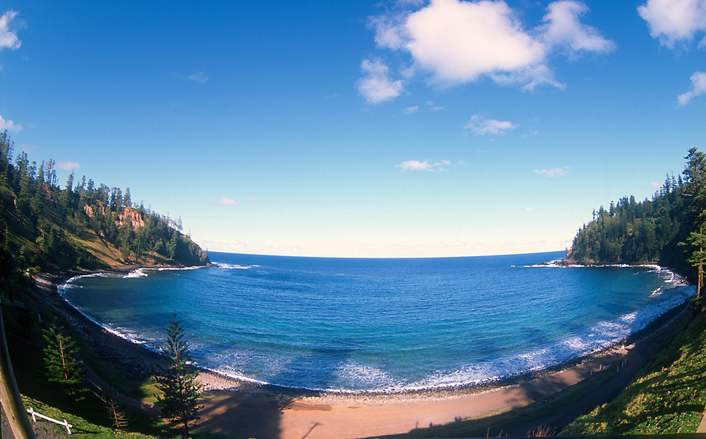 Ball Bay, Norfolk Island.